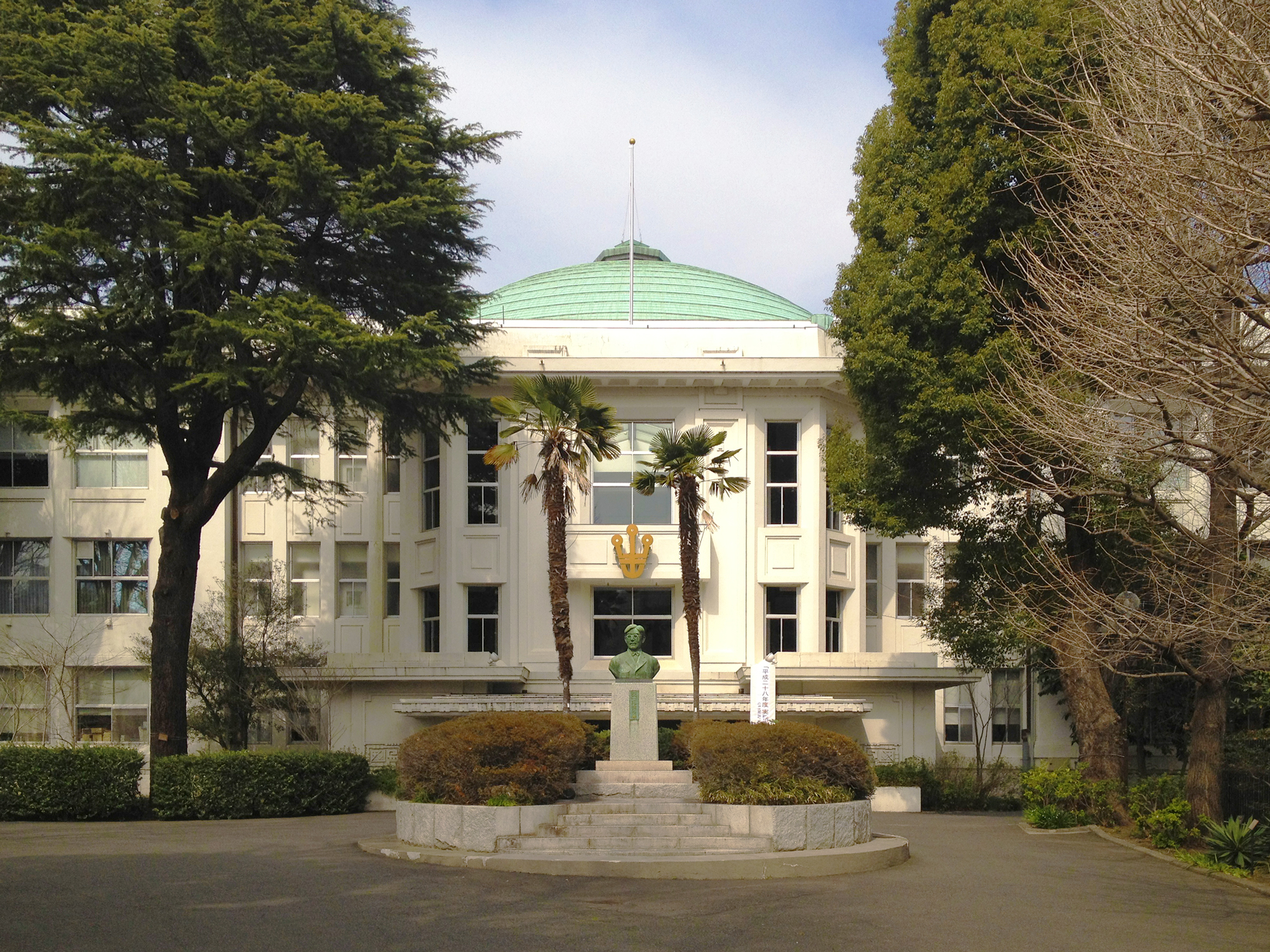 Main building of Hoshi University located in Shinagawa, Tokyo, Japan.